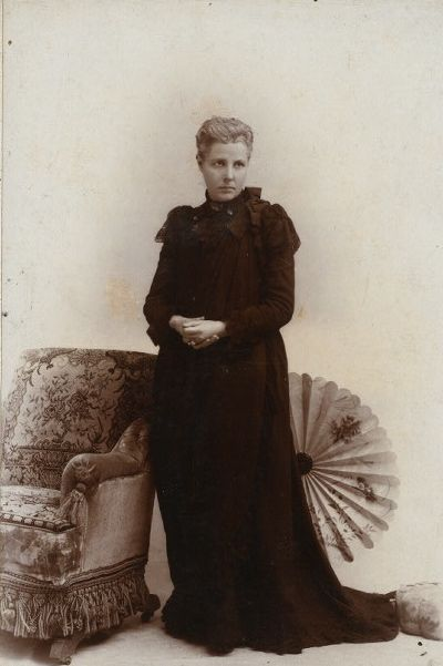 Portrait of Annie Besant (1847-1933), feminist and theosophist